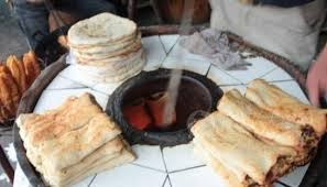 肉大饼，赤溪特产